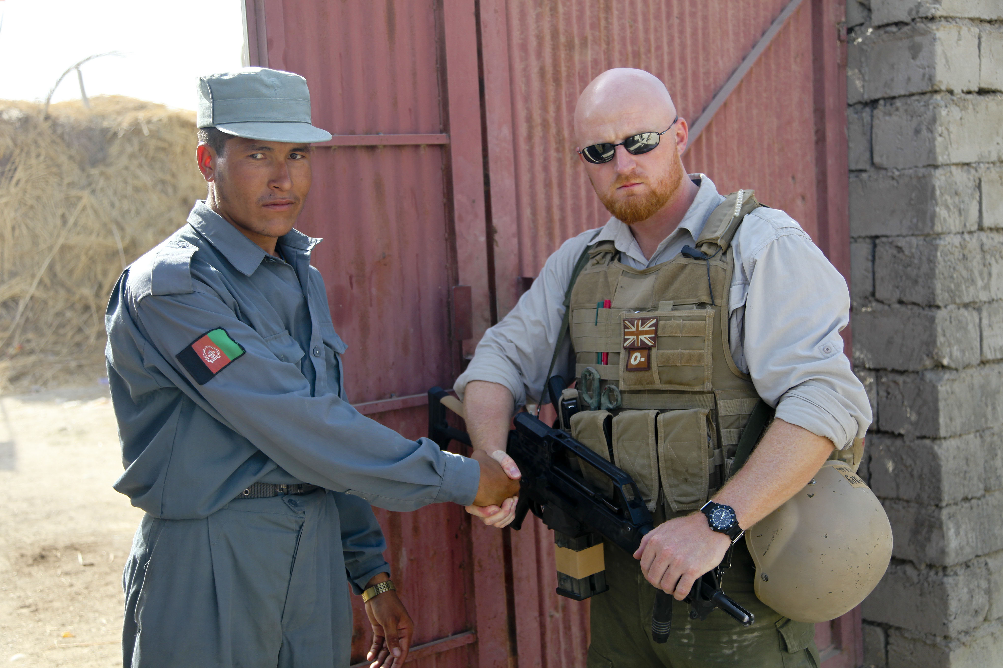 An Afghan National Police officer meets a British special security agent during a key leaders engagement between U.S. Marines of 1st Battalion, 5th Marine Regiment and Nawa District officials in the Nawa District Bazaar, Helmand Province, Afghanistan, July 22, 2009. U.S. Marines with 1st Battalion, 5th Marine Regiment, Regimental Combat Team 3, 2nd Marine Expeditionary Brigade - Afghanistan are deployed in support of NATO's International Security Assistance Force and will participate in counterinsurgency operations, and the training and mentoring of Afghan security forces to improve security and stability in Afghanistan.